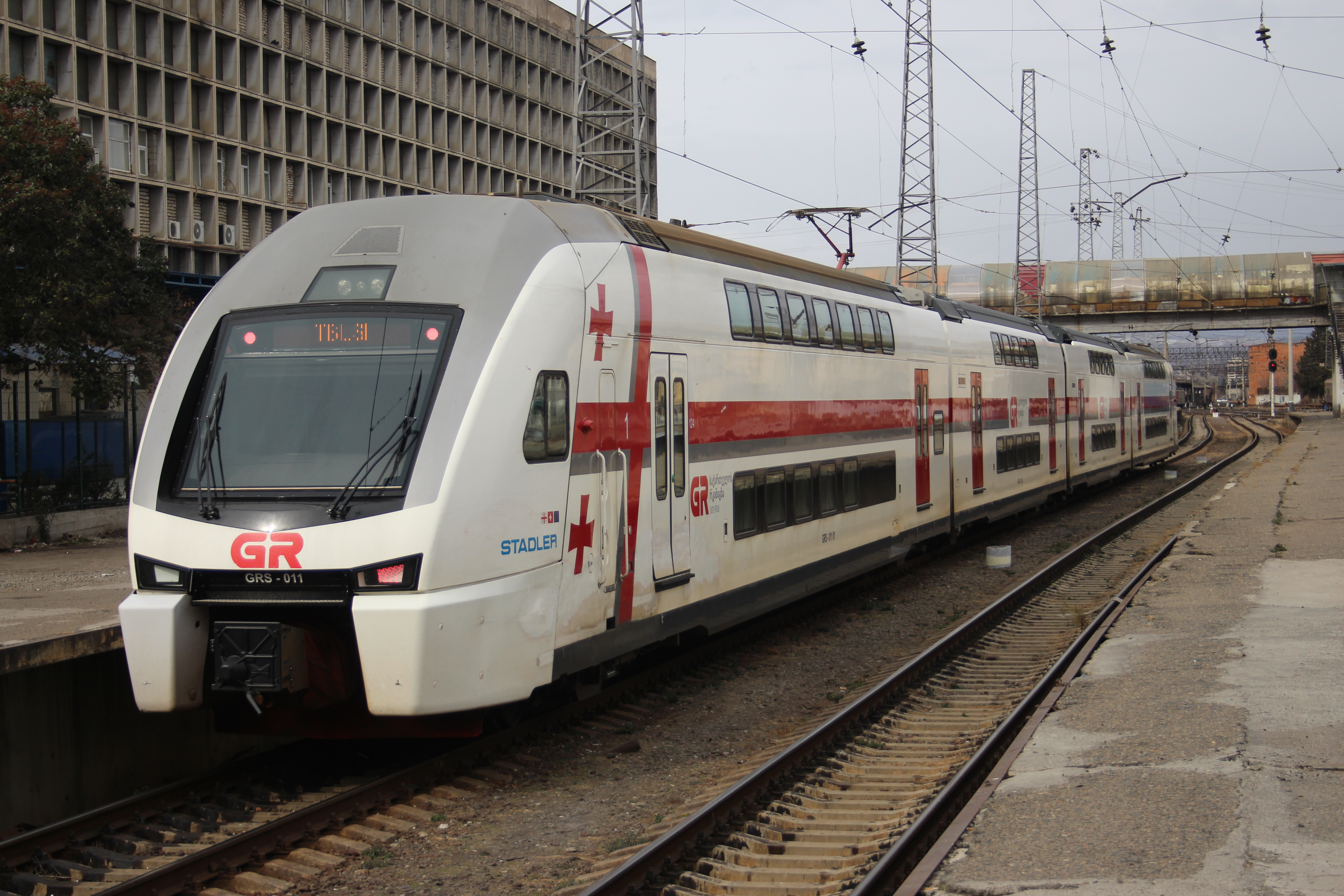 GR GRS - 011 having terminated in from Batumi, departing from Tbilisi main station. This is a Stadler KISS 'Eurasia' EMU, built for Georgian Railway, heading to the depot.